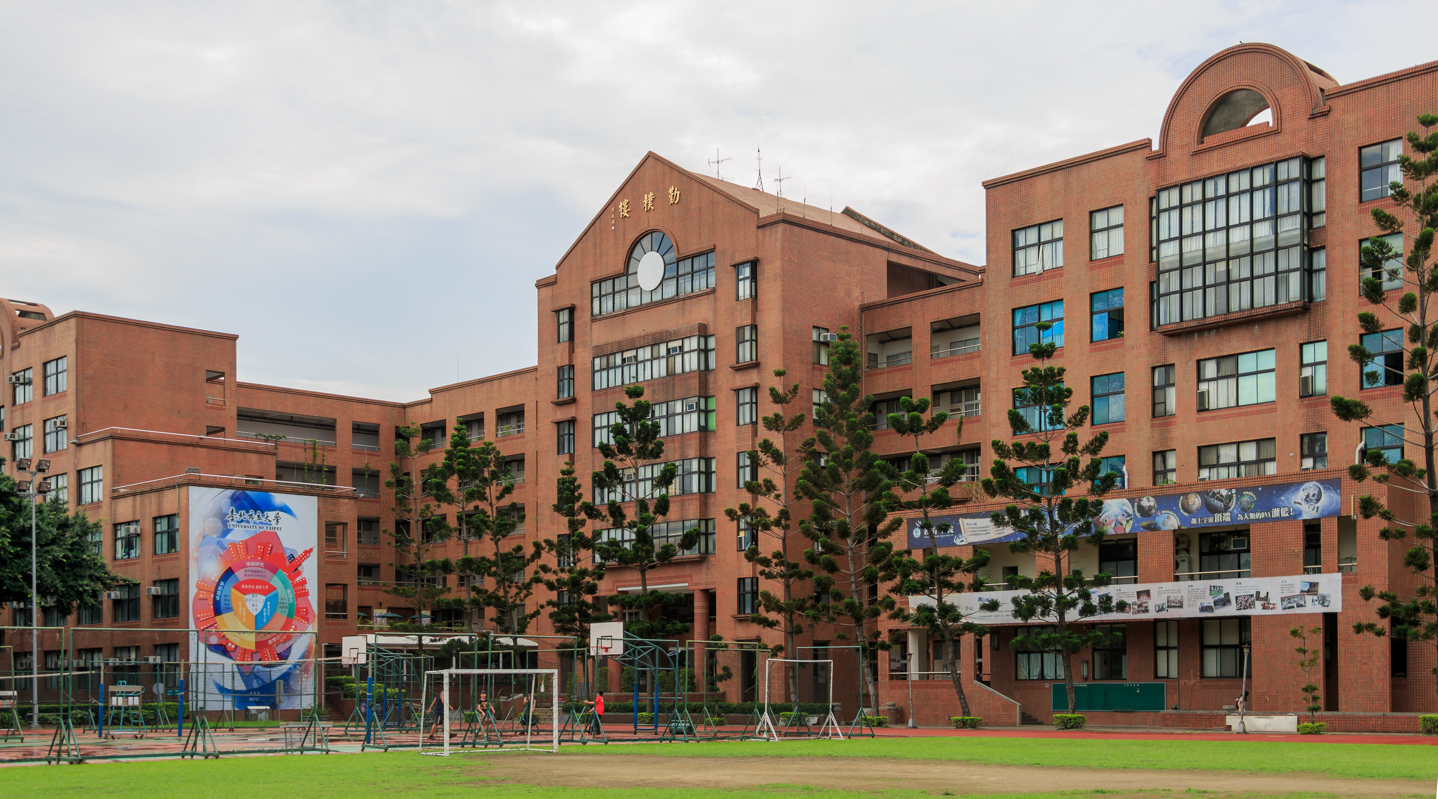 Taipei, Taiwan: University of Taipei, Qin Pu Hall